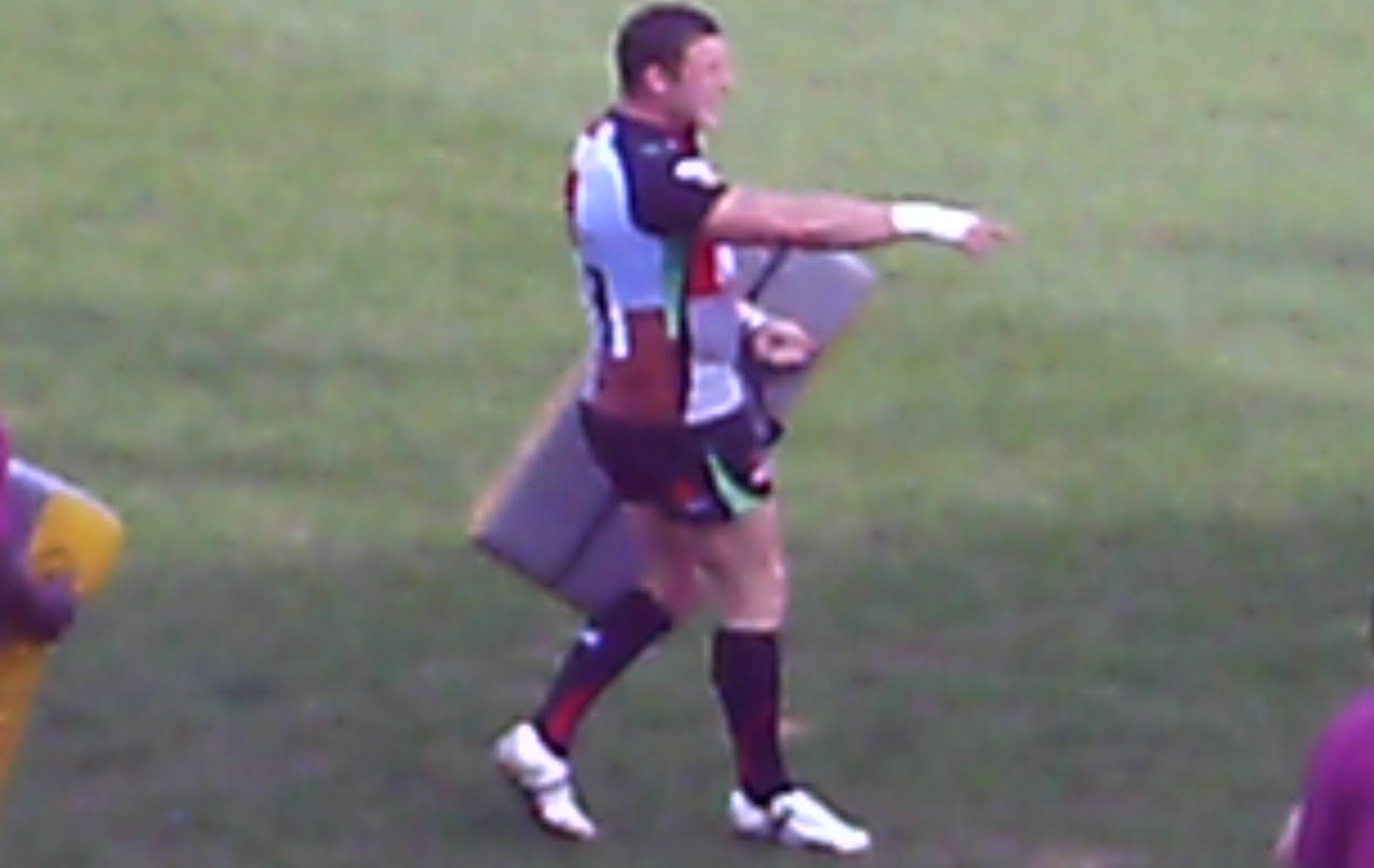 Ryan Esders at Harlequins vs St Helens in the European Super League.